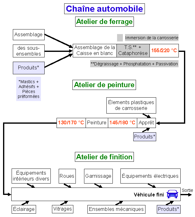 Vehicle assembly lines: summary diagram of the manufacture of a motor vehicle.